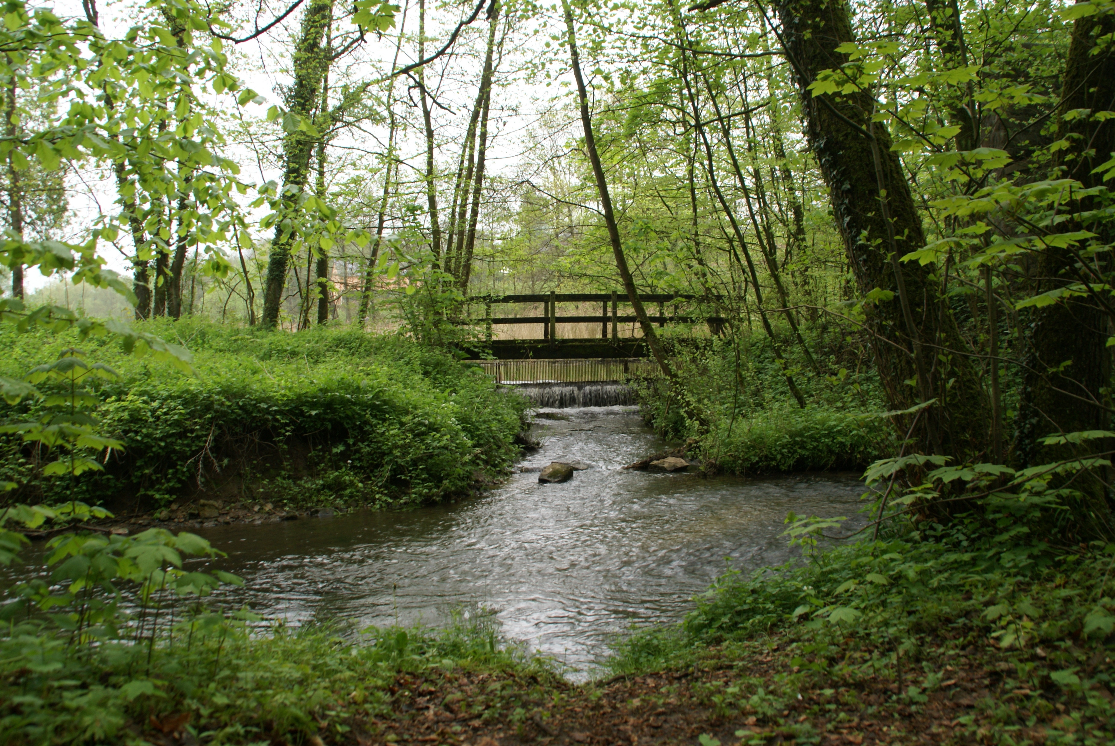 Kelmis (Belgium): Mouth of the Tüljebach River in the Geul River